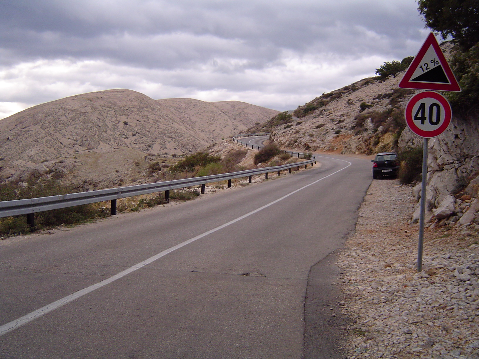 The steep ascent of the road Ž5125 to Stara Baška, Croatia.